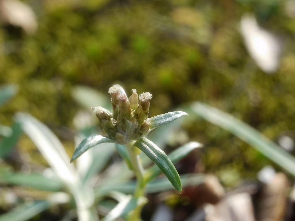 Gnaphalium japonicum(Asteraceae)